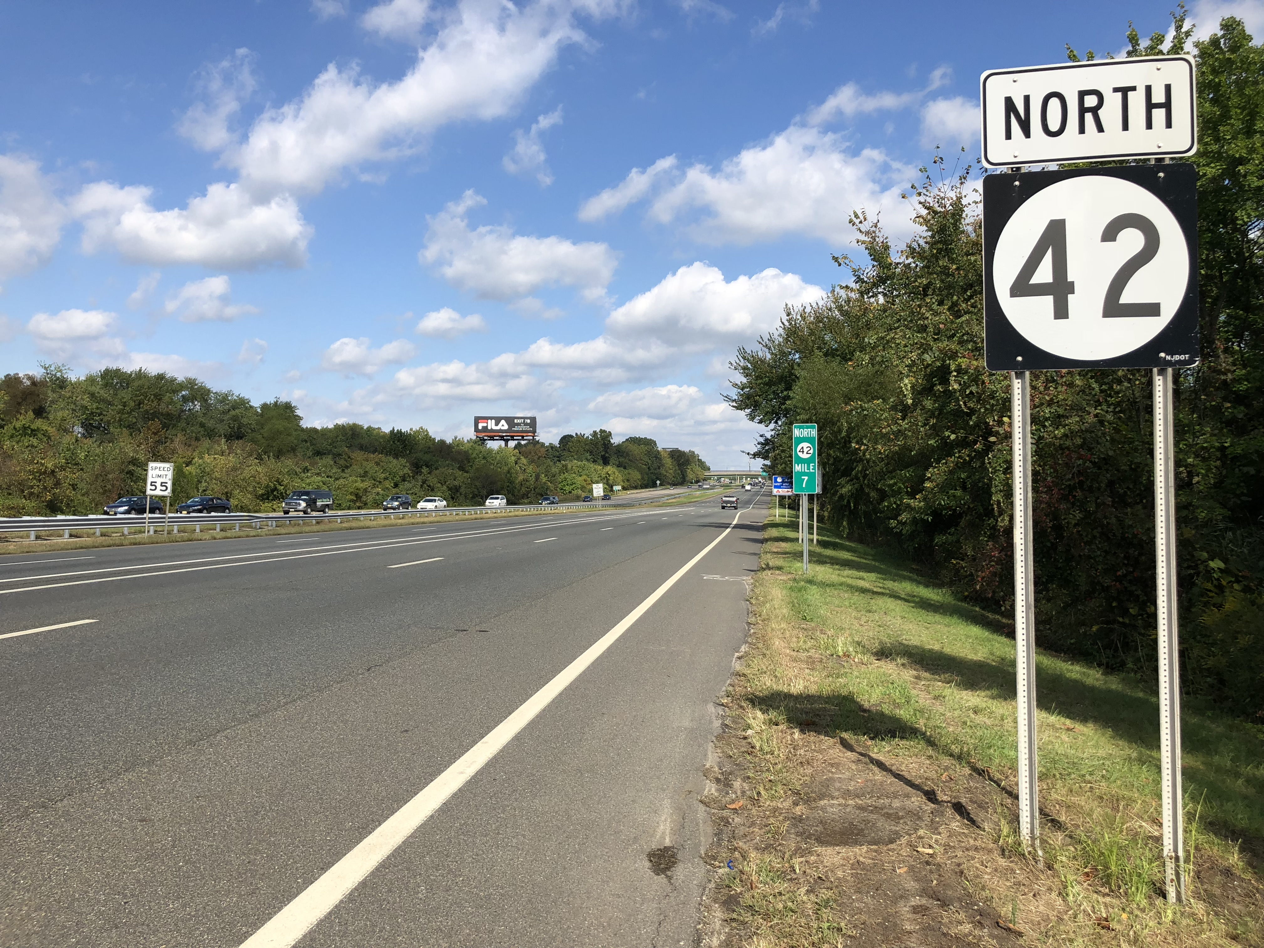 View north along New Jersey State Route 42 (North-South Freeway) between Exit 7 and Exit 7B in Gloucester Township, Camden County, New Jersey